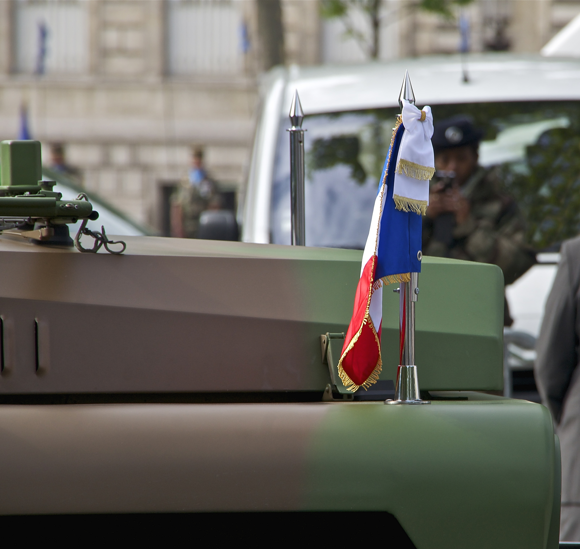 The presidential pennant, on the command car used by the President of the French Republic for the review of the troops before the military parade on the Champs-Elysées, Bastille Day 2012 in Paris.